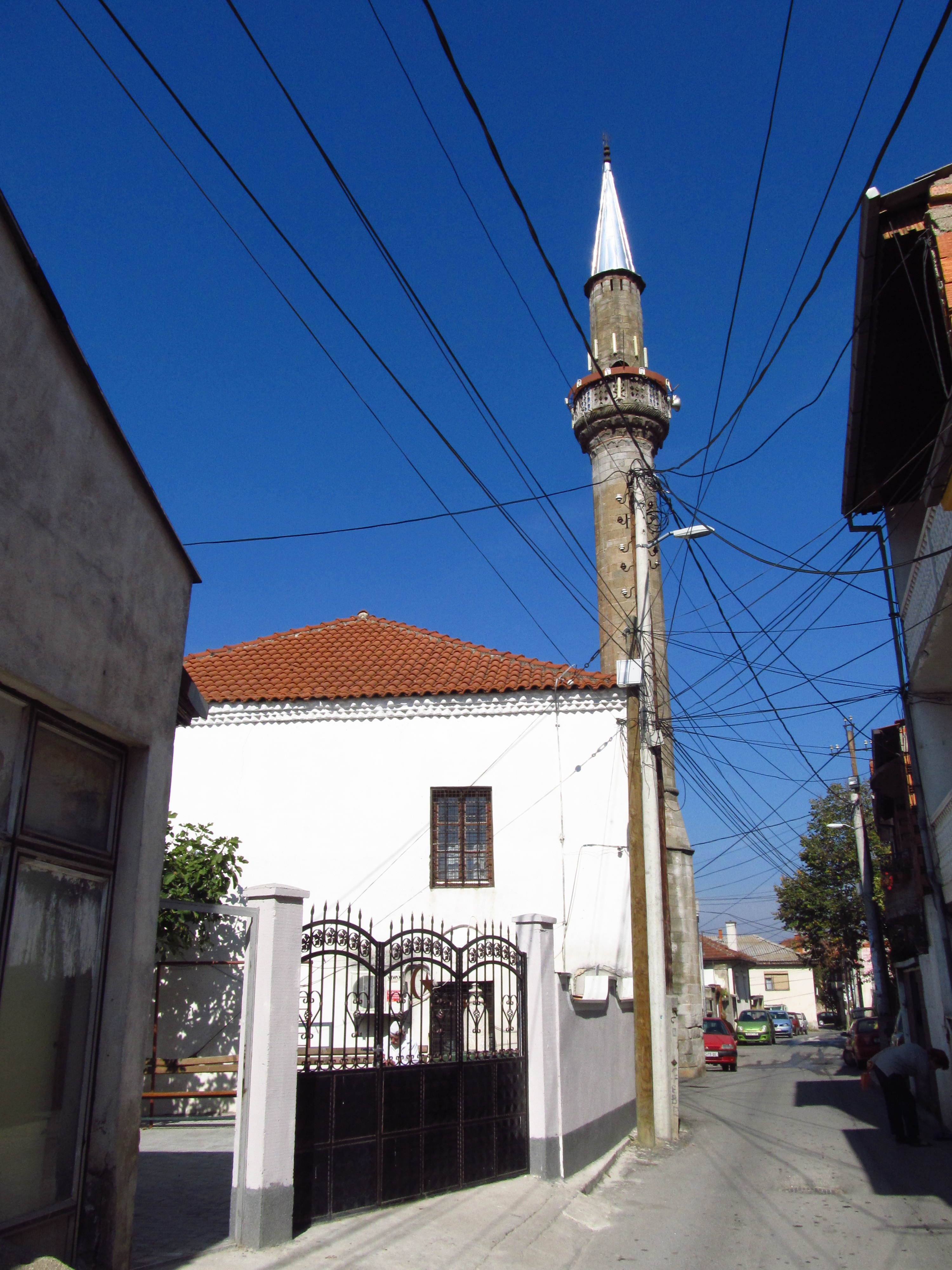 Fazıl Ahmed Pasha Mosque in Veles also known as "Black Džamija"